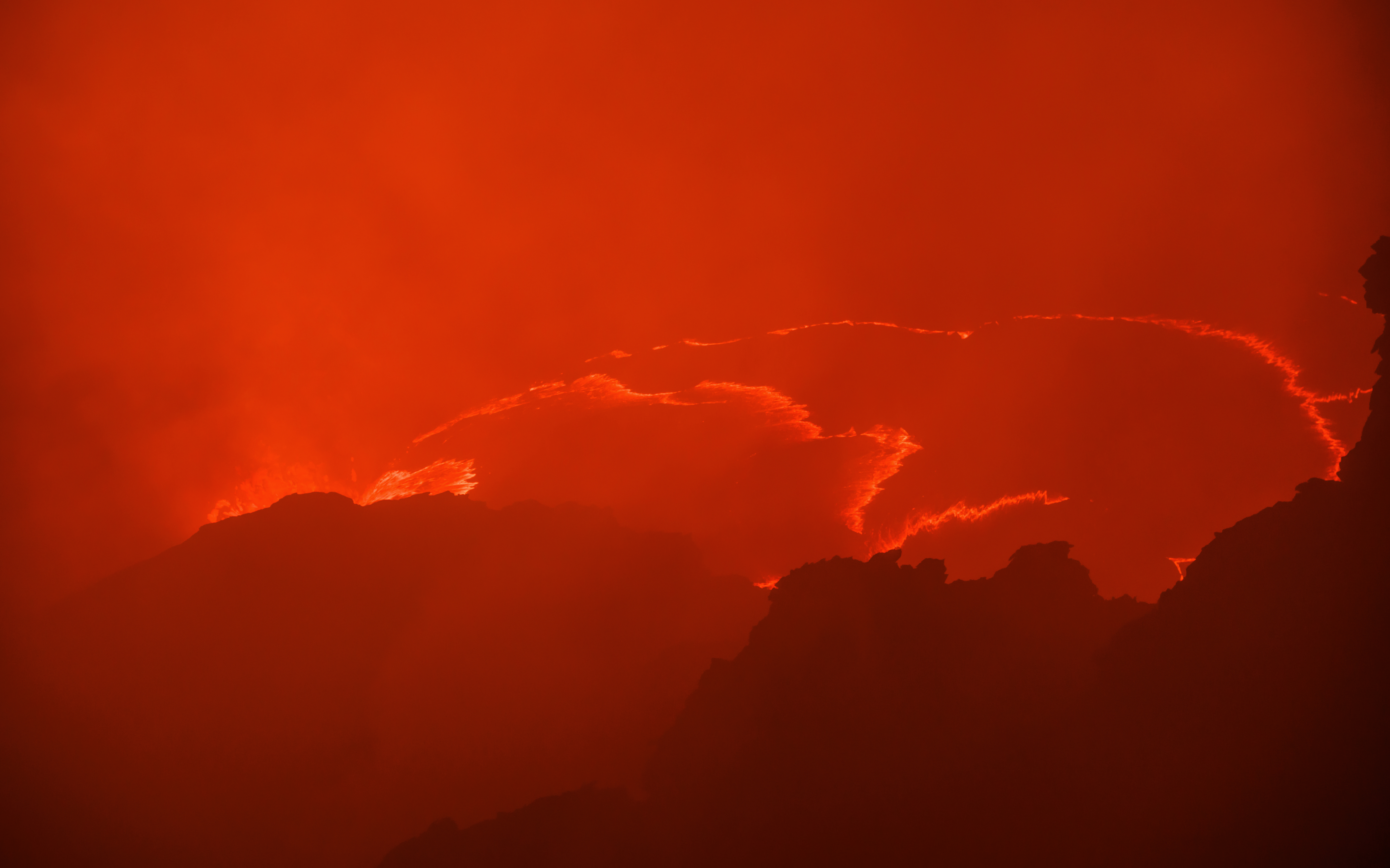 Lava lake on Erta Ale volcano, Afar Region, Ethiopia